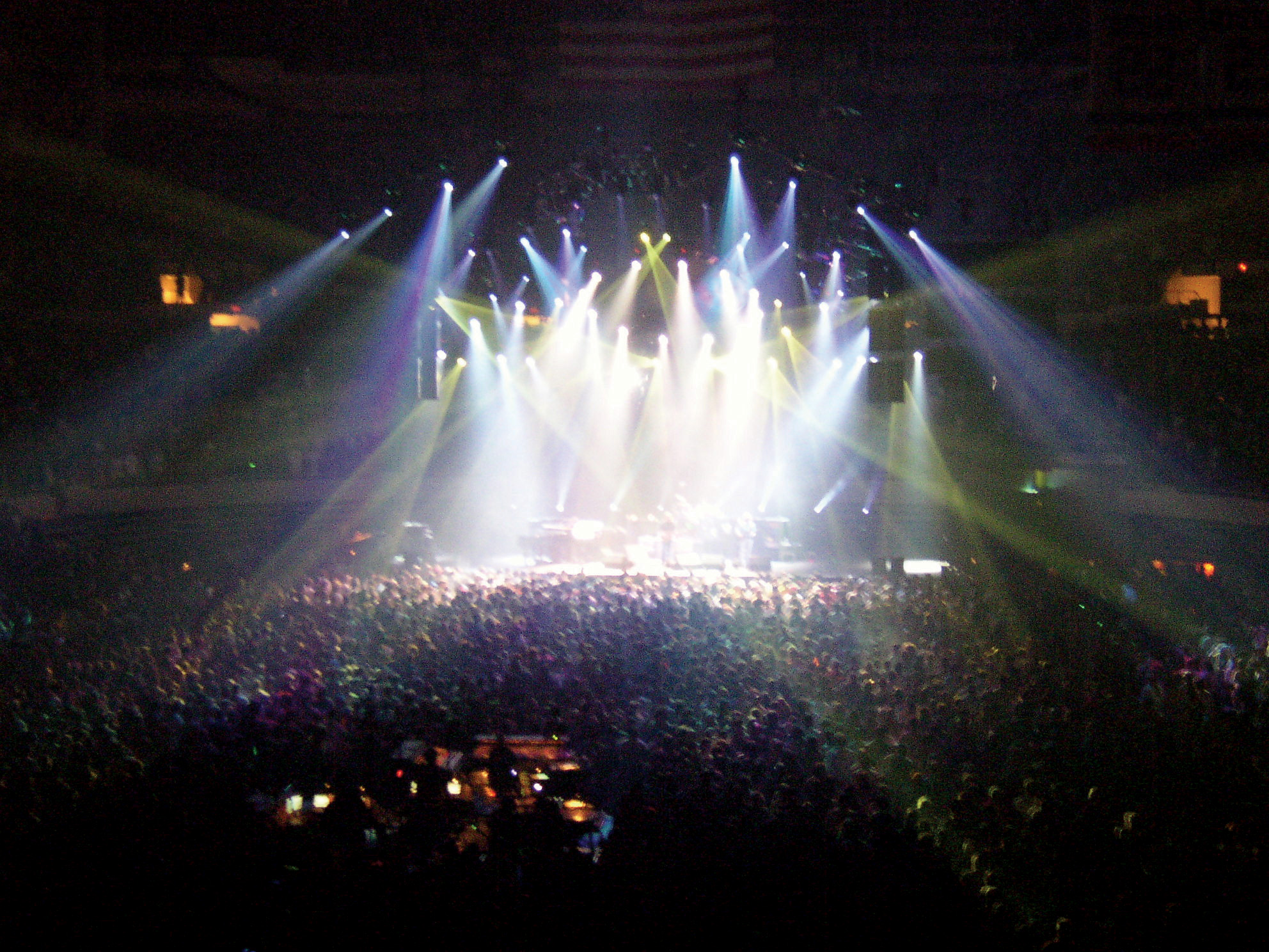 Crowd Shot at the Exotic Erotic Ball in San Francisco, California